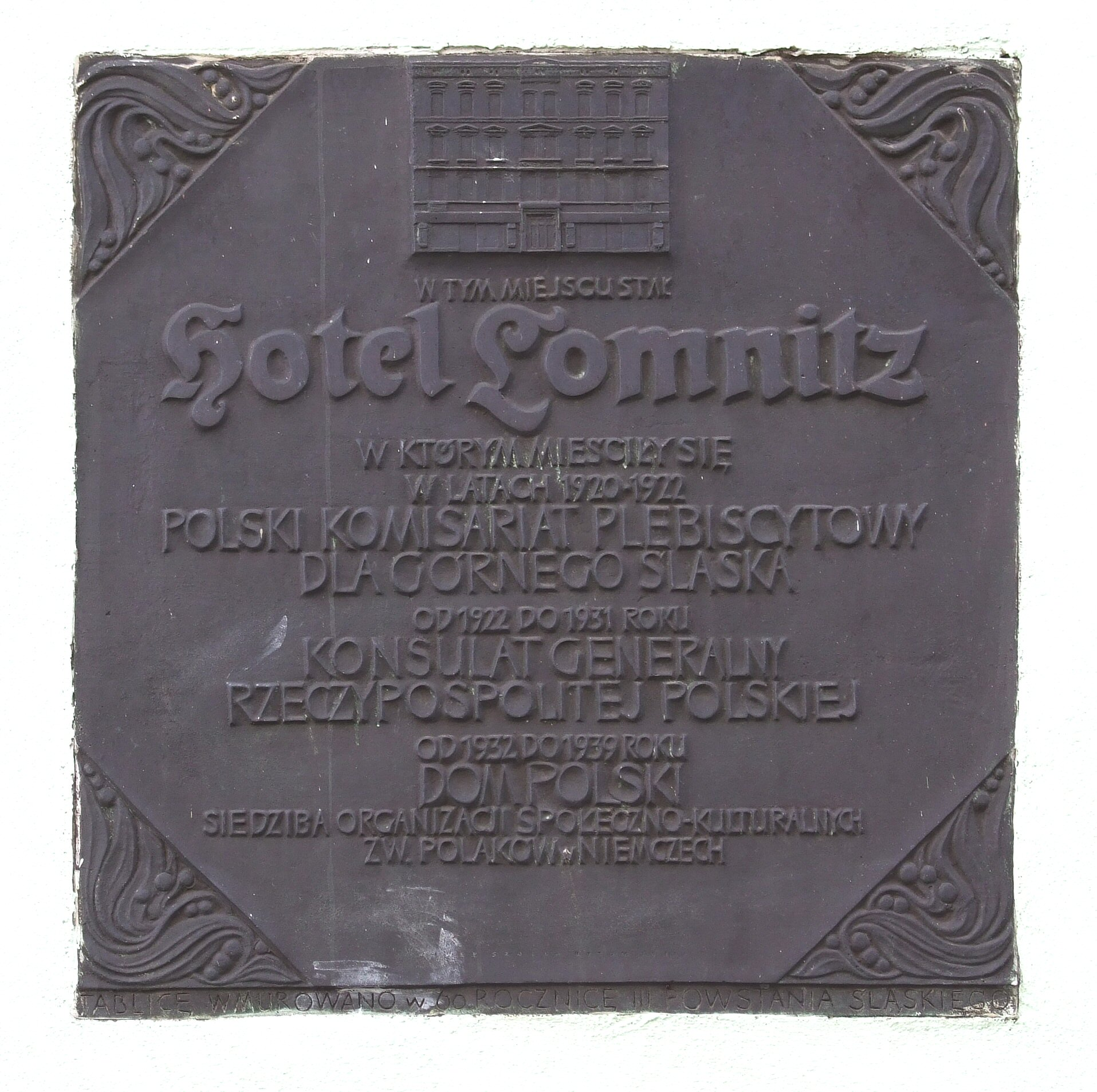 History board about Hotel Lomnitz in Bytom.